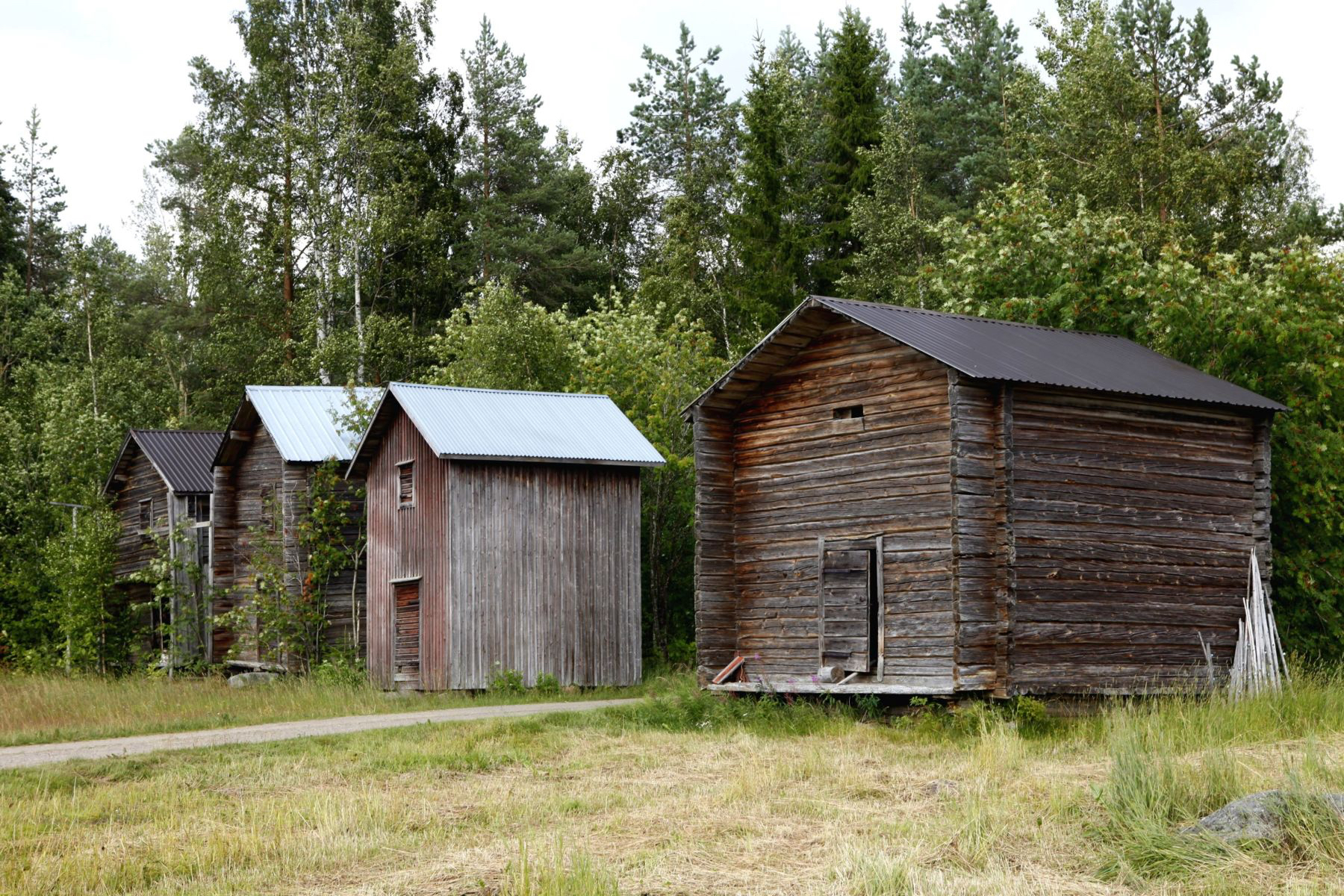 Maalismaa village in Oulu, Northern Finland